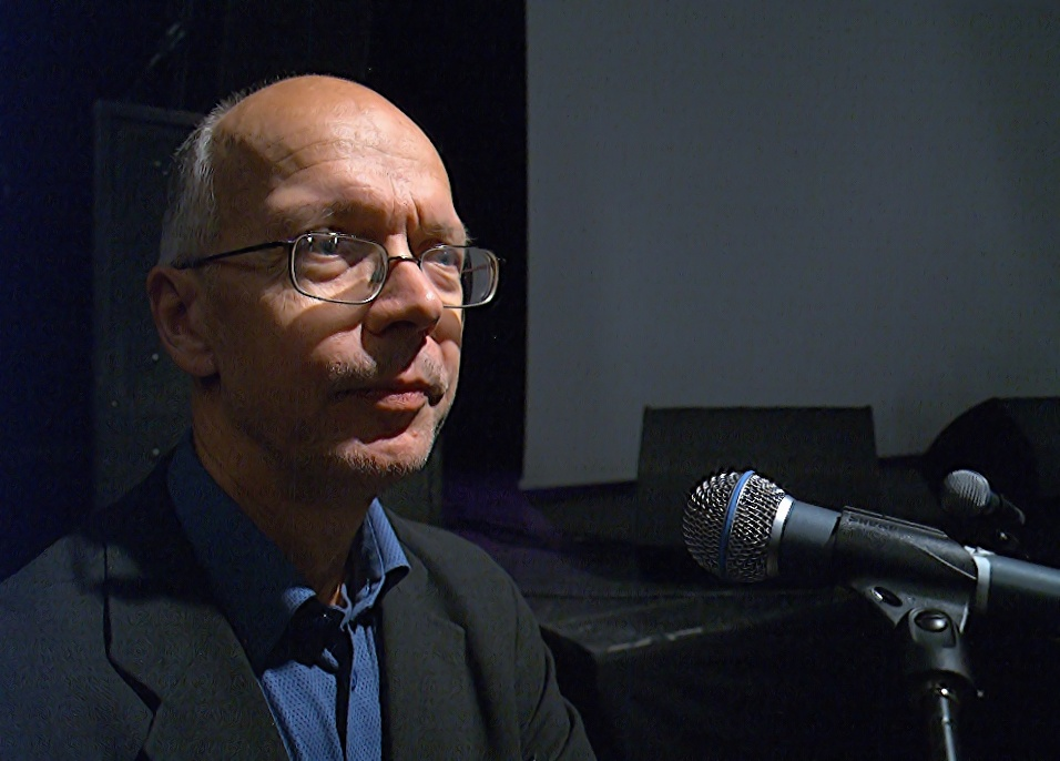 The Norwegian editor, and political left-wing activist Pål Steigan lecturing at Parkteateret during the seminar about the author Tron Øgrim